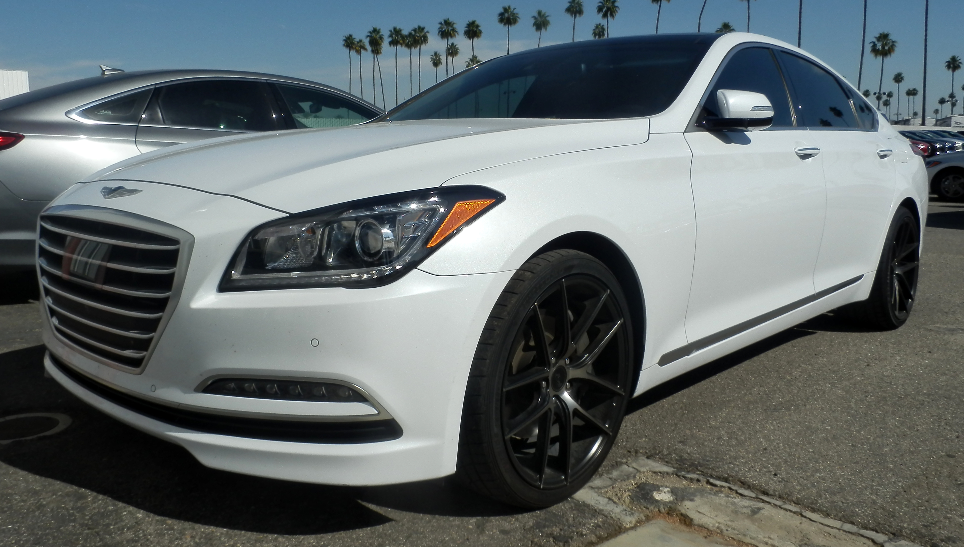 Genesis G80 in Bakersfield